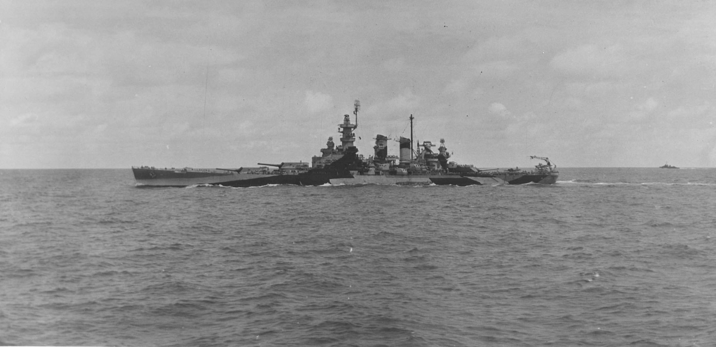 Underway in Ms32/18d early pattern (radar is the clue). Taken by Intrepid CV-11 photographer on 25 January 1944. She received this camouflage scheme in September 1943 at Pearl Harbor. (Note the Fletcher-class Destroyer in the distance).